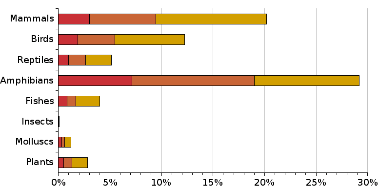 Percentage of species listed on the IUCN Red List, by group.